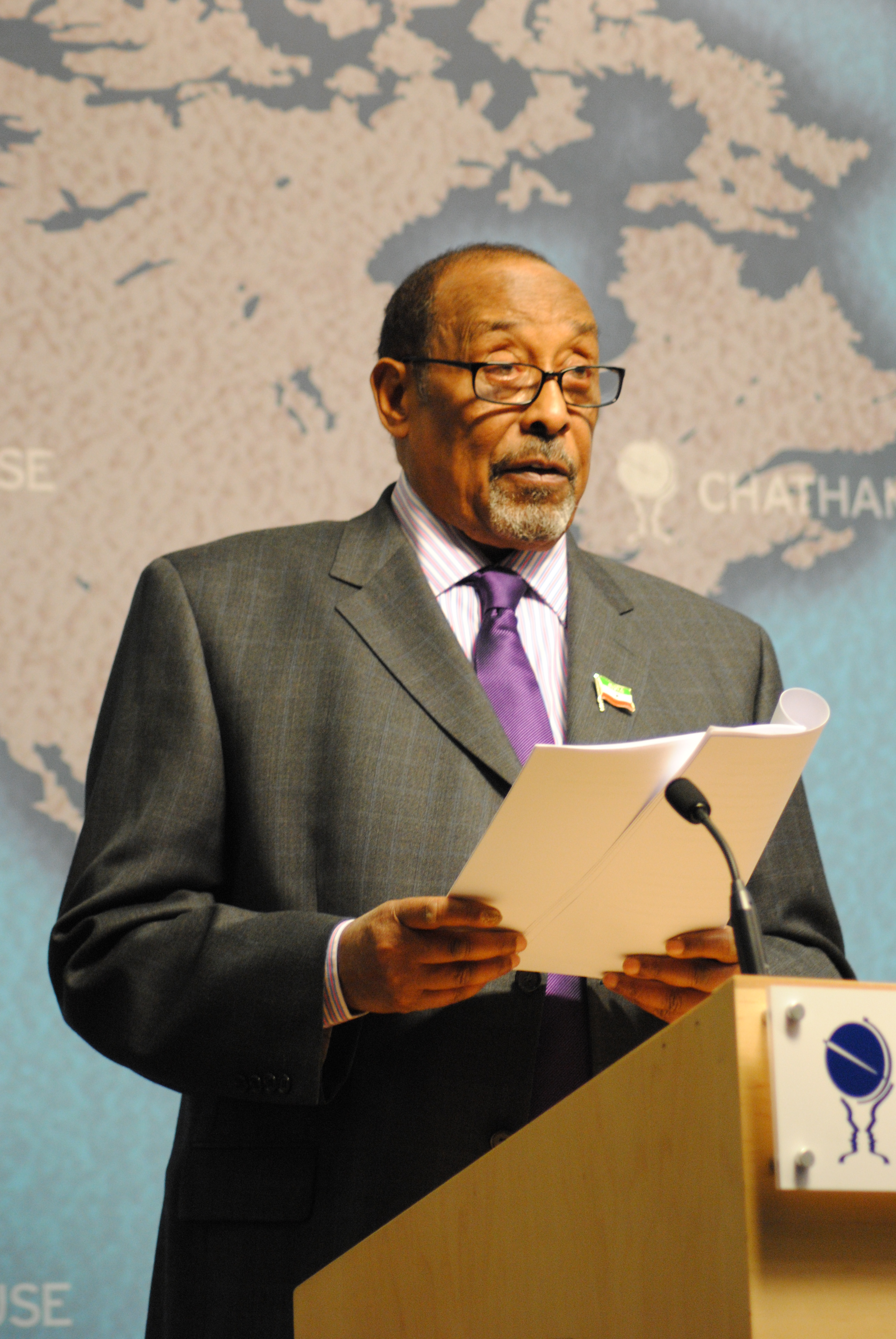 HE Ahmed Mohamed Mohamoud Silanyo, President of Somaliland speaking at a Chatham House Event on Friday 26 November 2010.